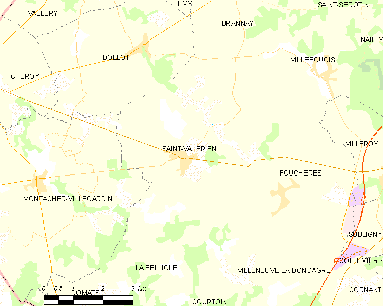 Map of French municipality Saint-Valérien